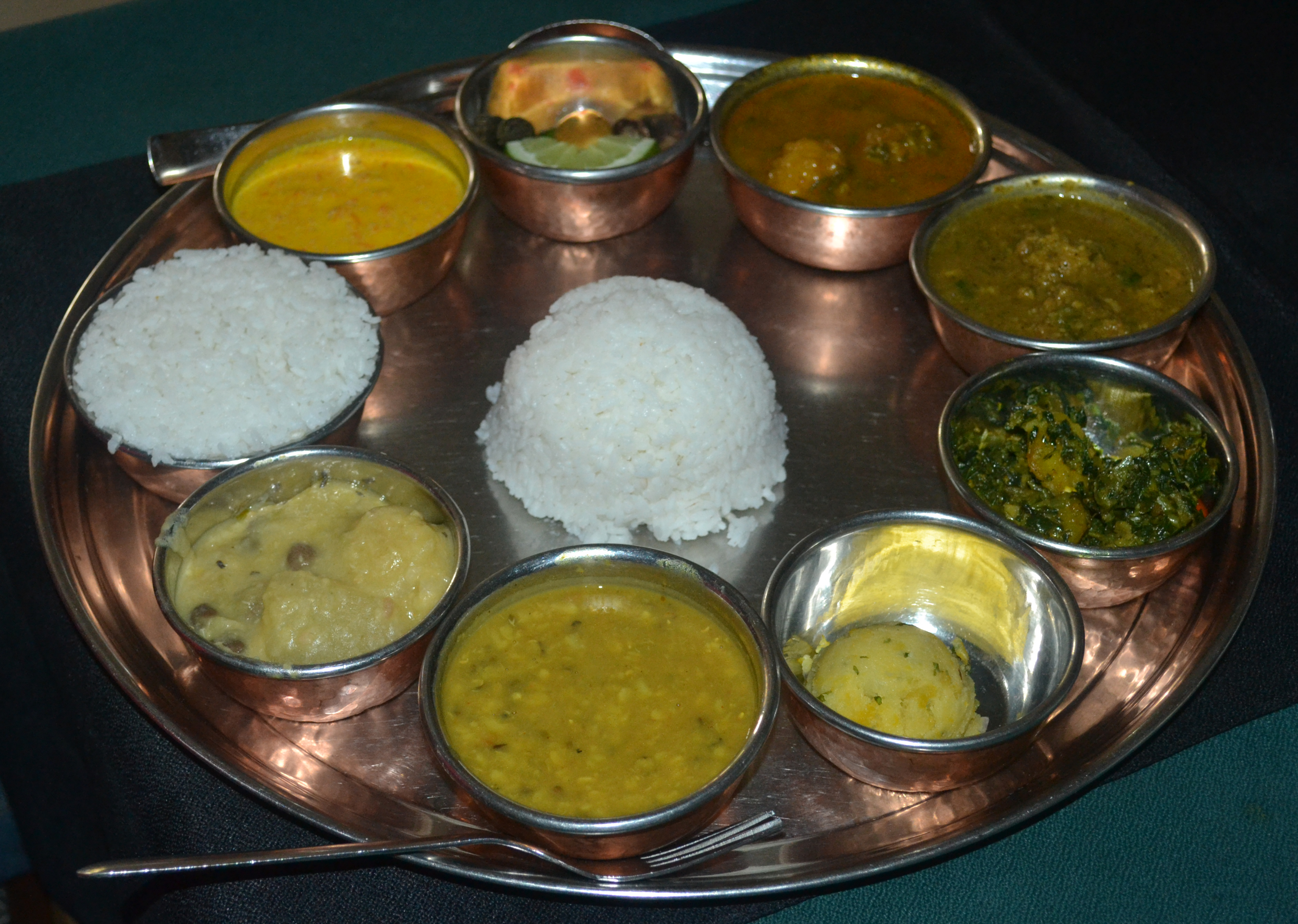 Assamese thali.